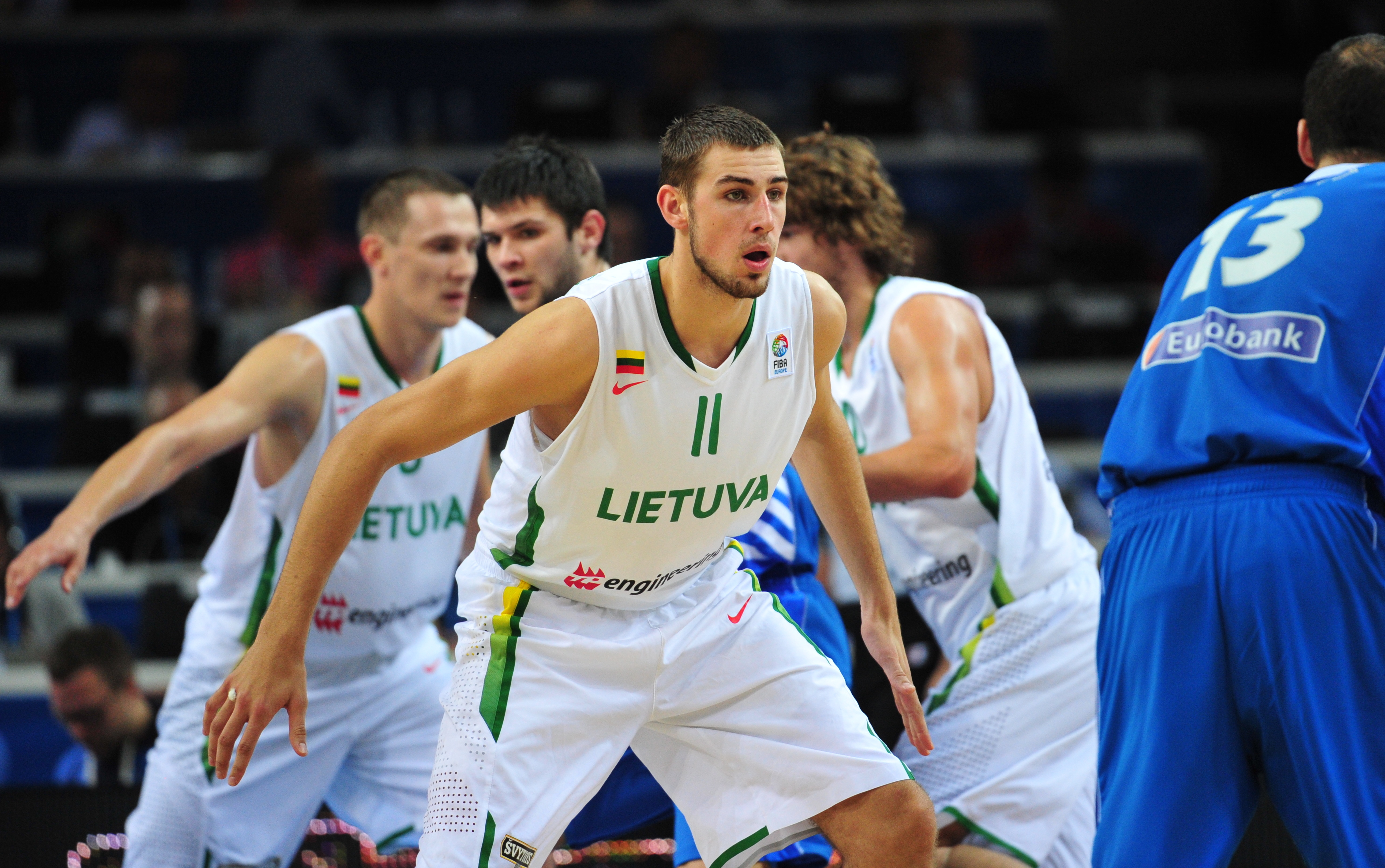 Lithuania national team against Greece team.